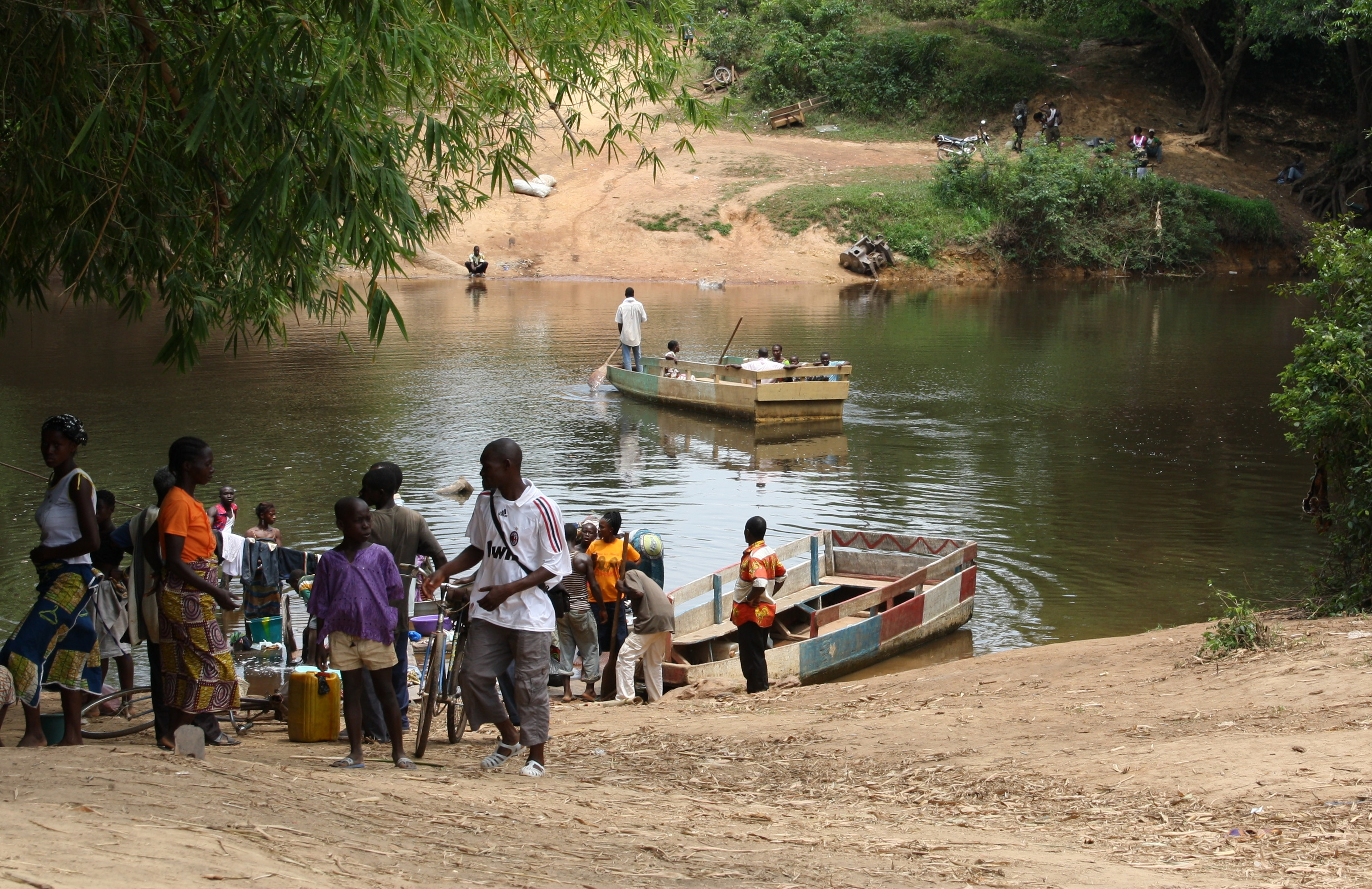 Thousands of Ivorians have used this river border crossing to escape into Liberia from fierce fighting in Ivory Coast. UK aid is providing an emergency support package to help thousands of those caught up in the crisis. For more information, please visit: Picture: Department for International Development/Derek Markwell Terms of use This image is posted under a Creative Commons - Attribution Licence, in accordance with the Open Government Licence. You are free to embed, download or otherwise re-use it, as long as you credit the source as 'Department for International Development'.